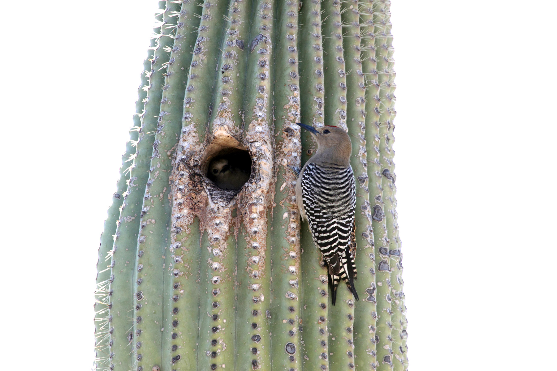 Male Gila woodpecker on Saguaro cactus with nesting hole (Melanerpes uropygialis), Tucson, Arizona